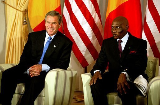 U.S. President George W. Bush meets with President Abdoulaye Wade of Senegal at the Presidential Palace in Dakar, Senegal, Tuesday morning, July 8, 2003.